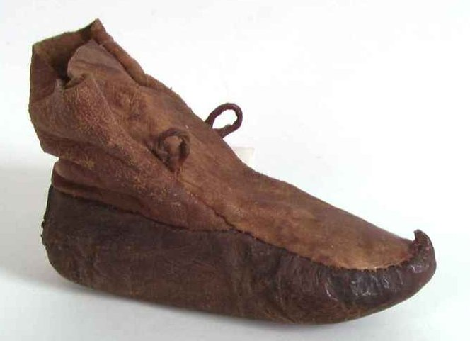 Sami summer shoe.